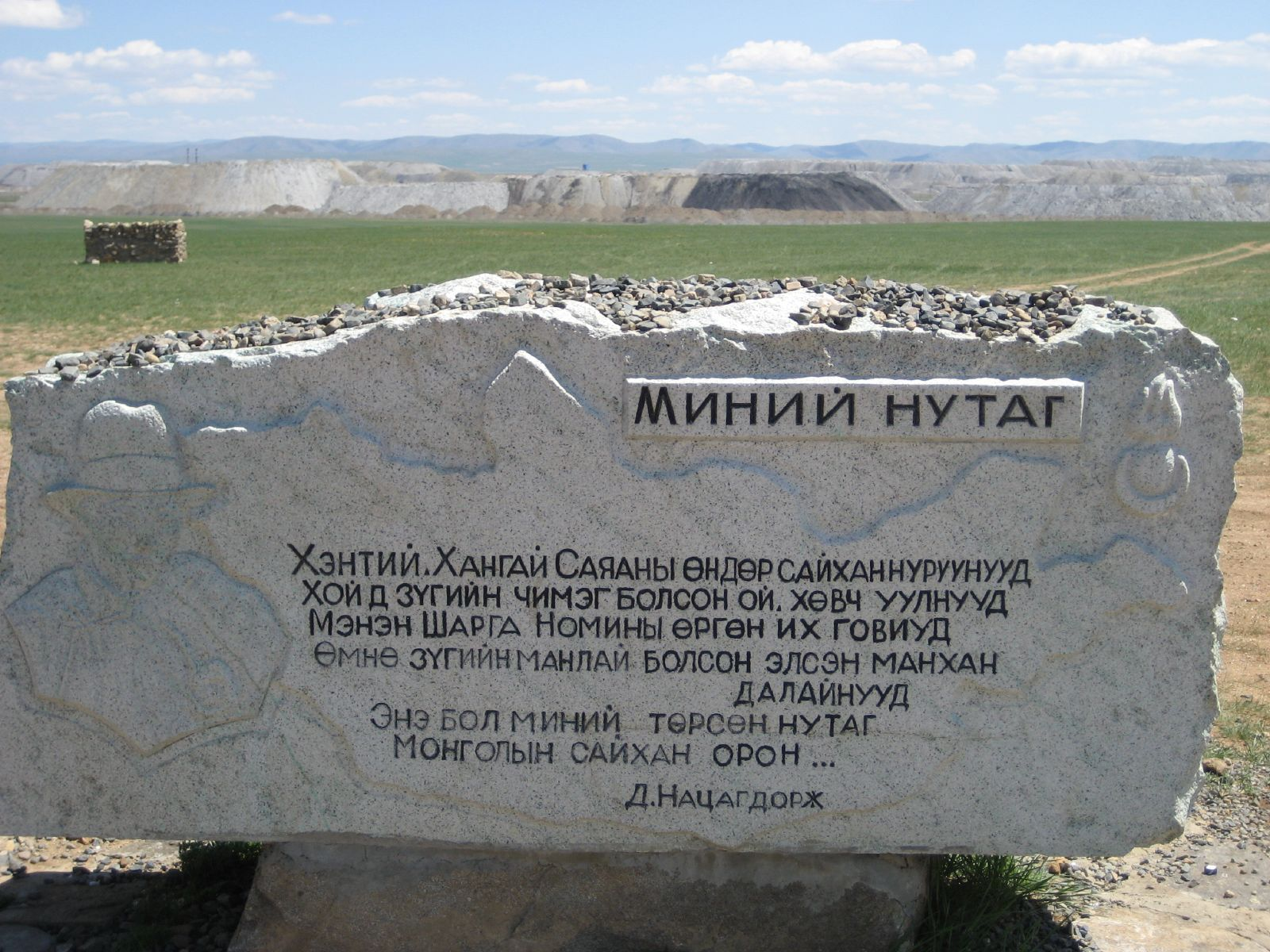 A famous poem in praise of Mongolia